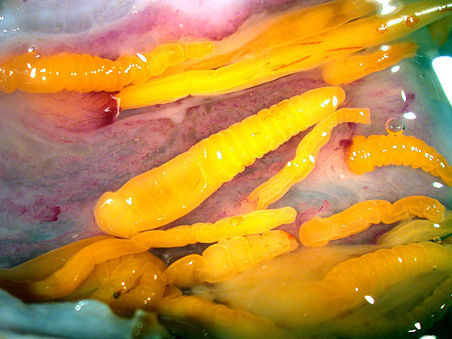 Pomphorhynchus from Bluefish (Pomatomus saltatrix)